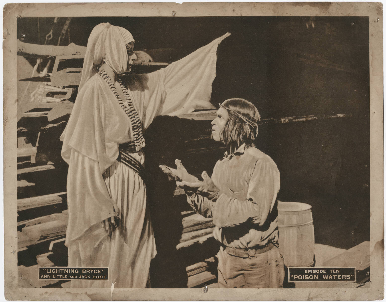 Lobby card for the serial film Lightning Bryce (1919). Episode ten, "Poison Waters." Lobby card, approximately 28 x 35 cm. Jill Woodward, "the Mystery Woman," and Steve Clemente, Zambleau, are featured on the card.